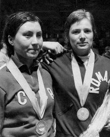 Olga Knyazeva, Ecaterina Stahl, 1975 World Championships